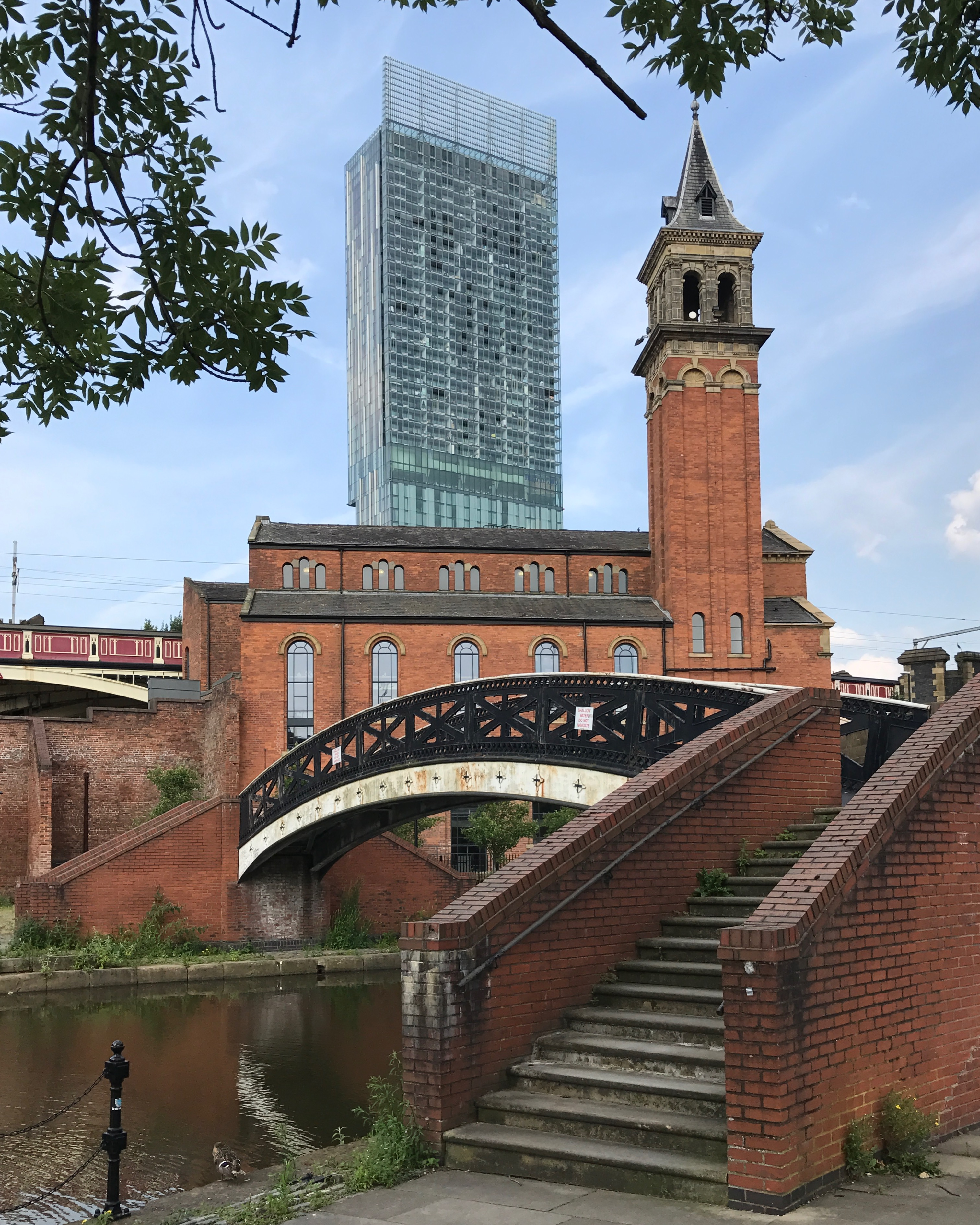 Beetham Tower seen from Castlefield